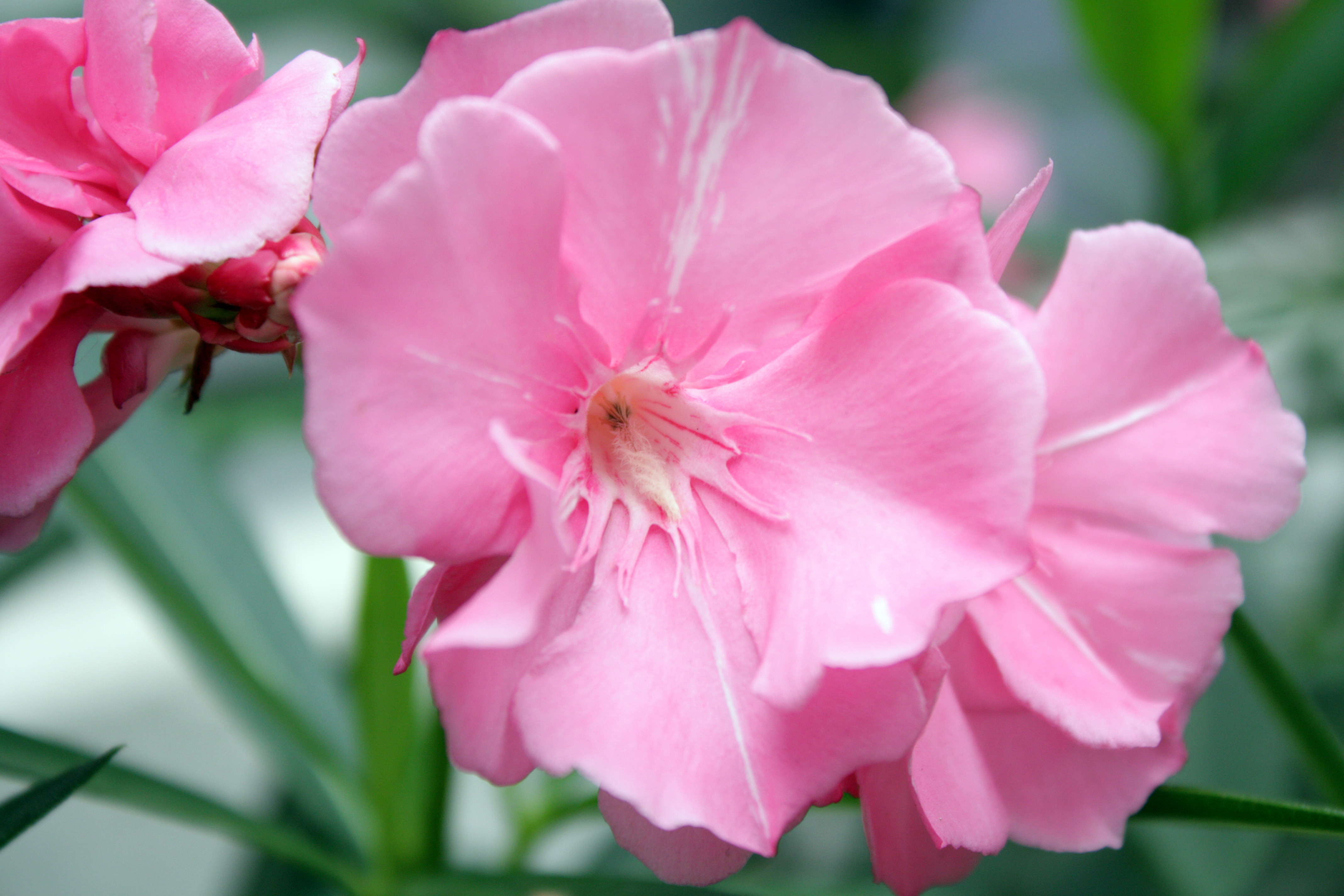 Nerium indicum